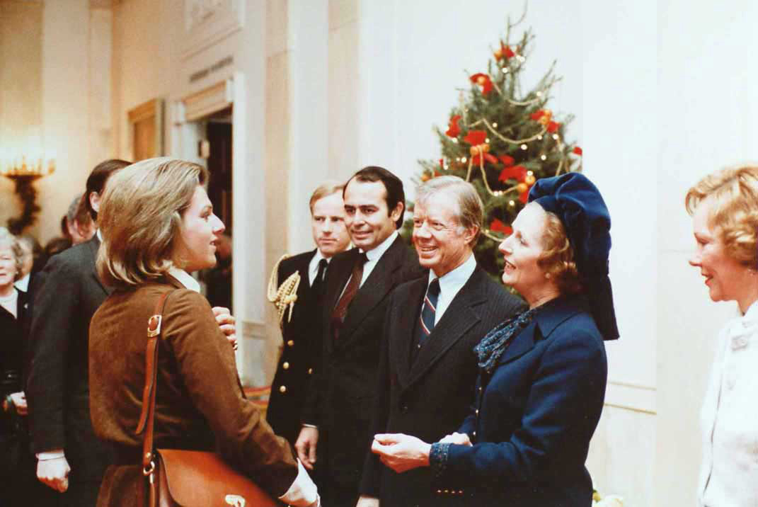 Margaret Thatcher greets her daughter, Carol, in a receiving line at the White House. President Jimmy Carter is at Thatcher's right and first lady Rosalynn Carter at her left.